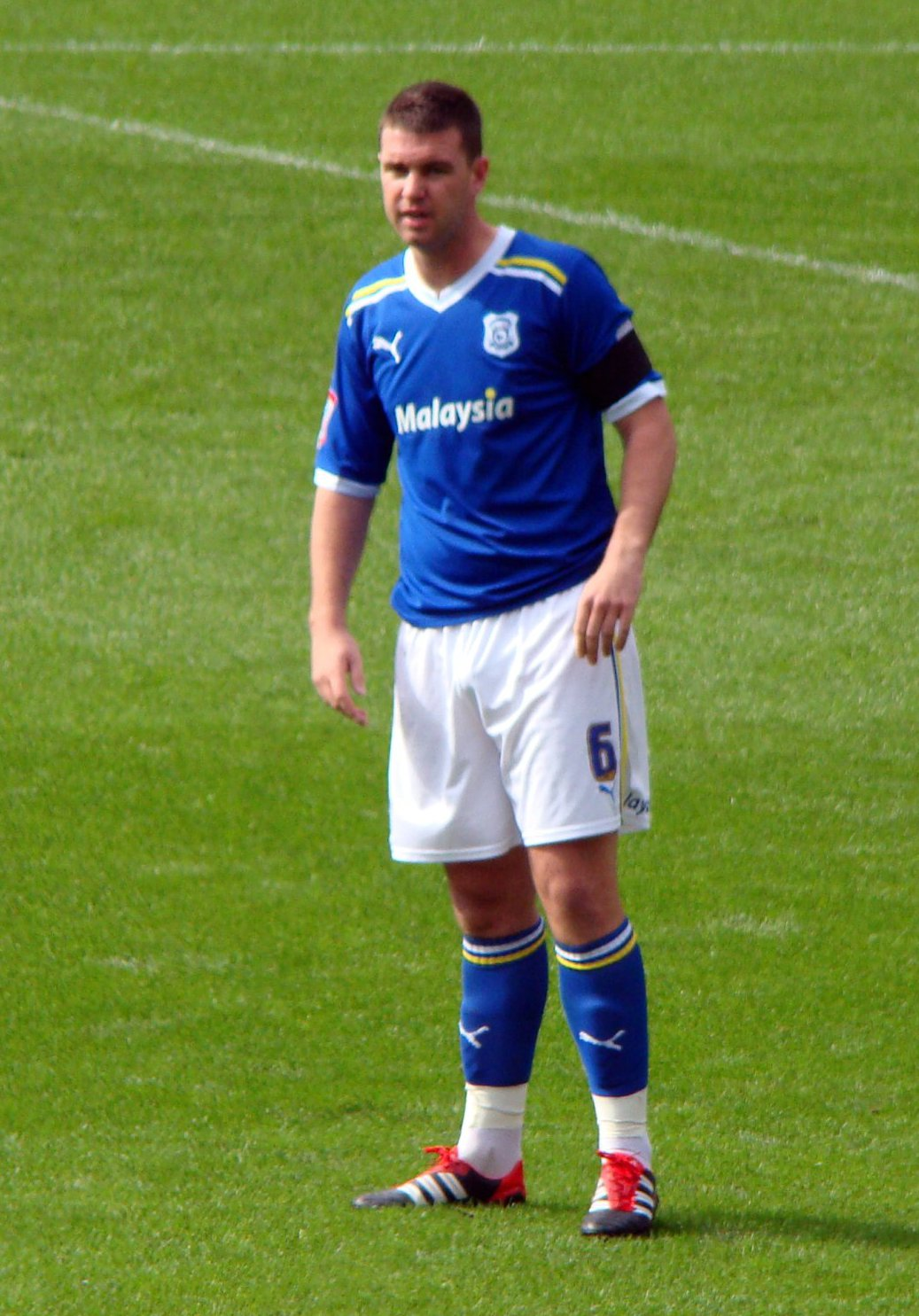 25/09/11 Cardiff V Leicester, Championship, Cardiff City Stadium, Cardiff, Wales